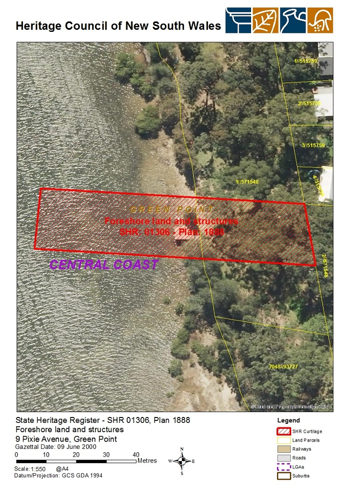 Green Point Foreshore and Structures: SHR Plan 1888